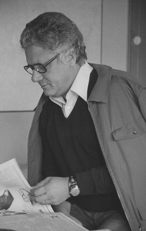 Manuel Tainha, Lisbon, 1975